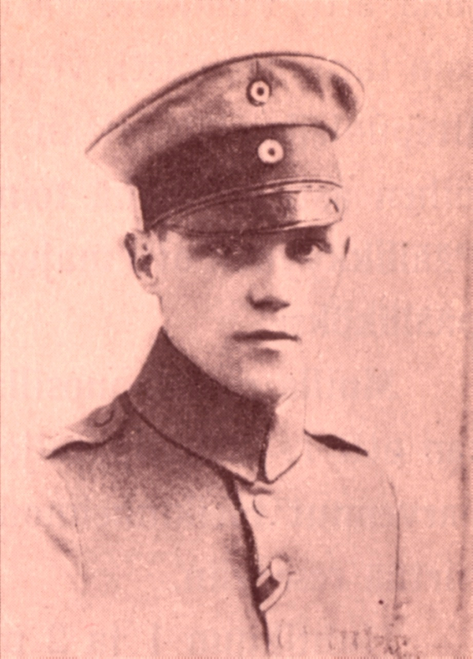 Jarl Olof Lagus.